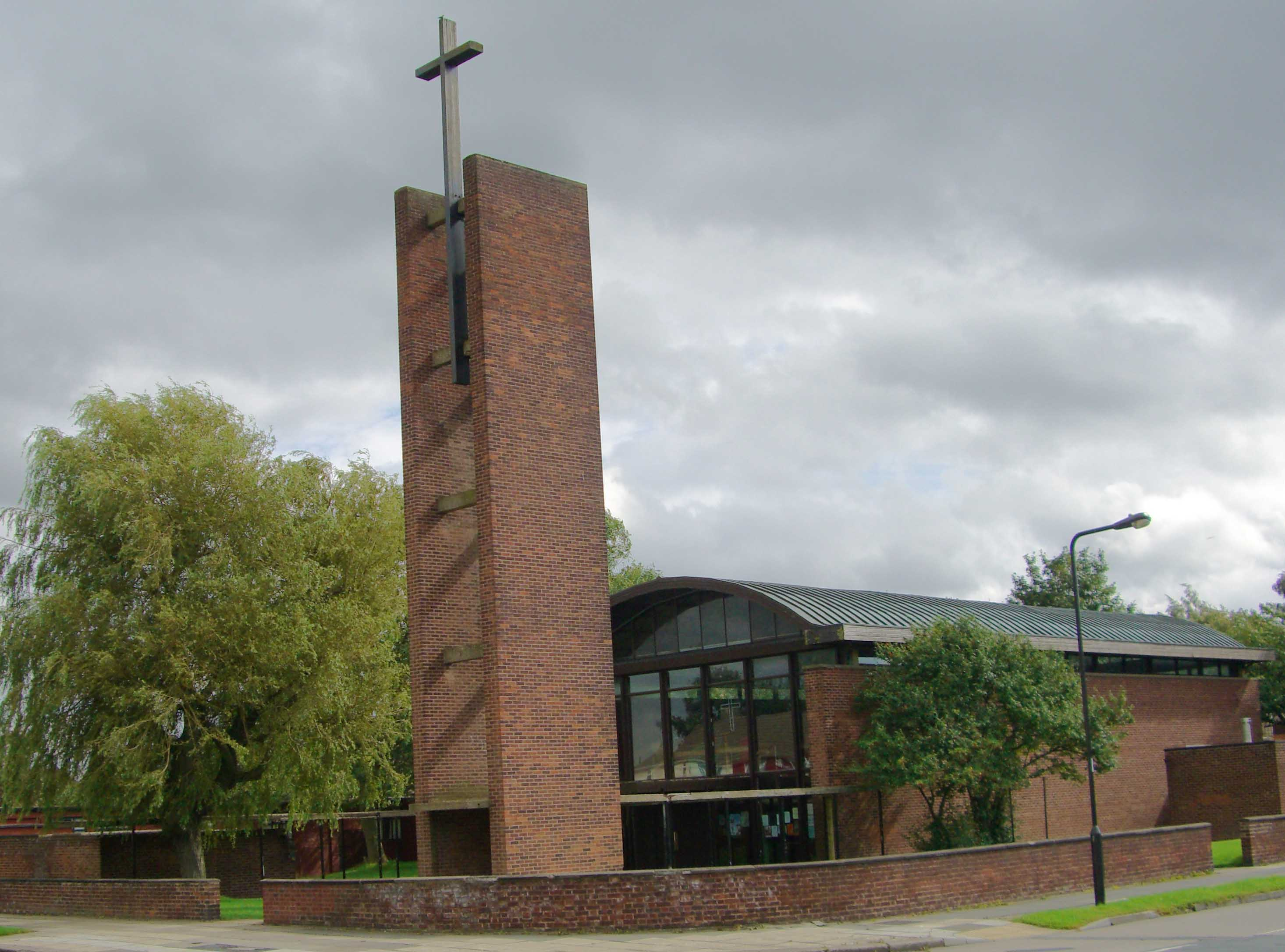 St Pauls church, Wordsworth Avenue in the Sheffield suburb of New Parson Cross